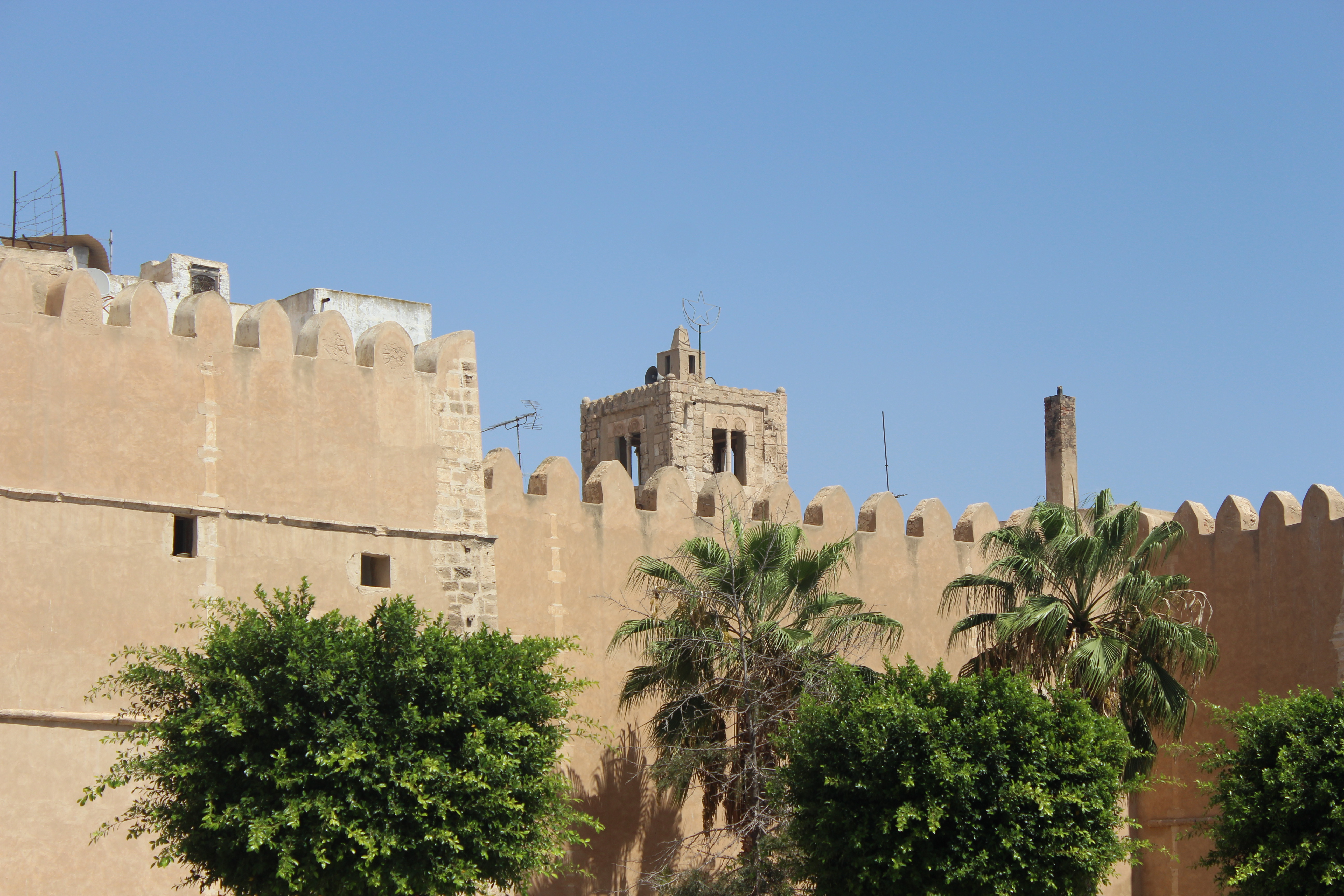 Sidi Amar Kammoun mausoleum from outside the walls of the Medina. It used to serve as a surveillance tour during attacks coming from the sea.